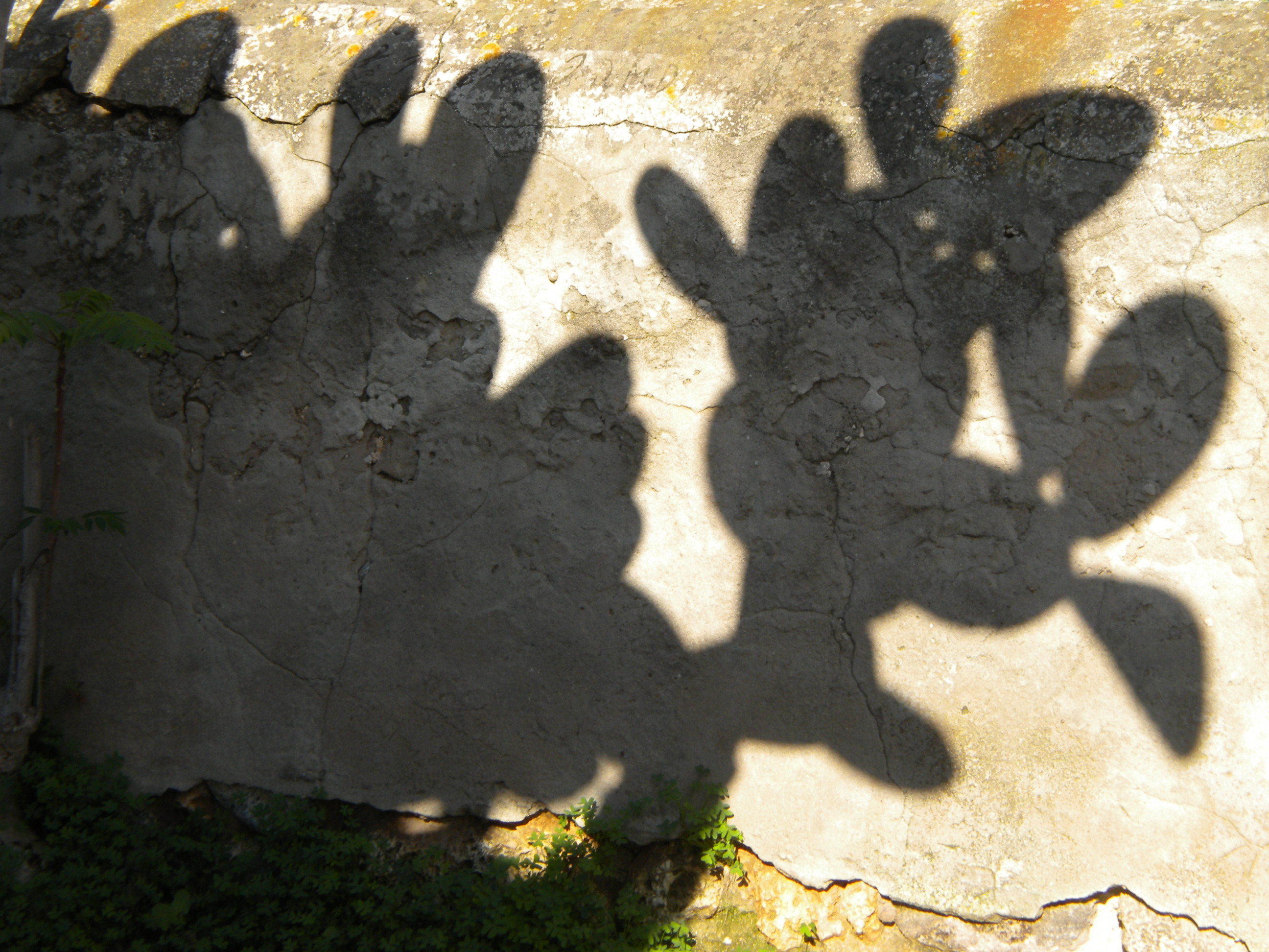 Shadow of cactus Opuntia ficus-indica on a wall. Capo Vaticano near Tropea, Calabria, Italy